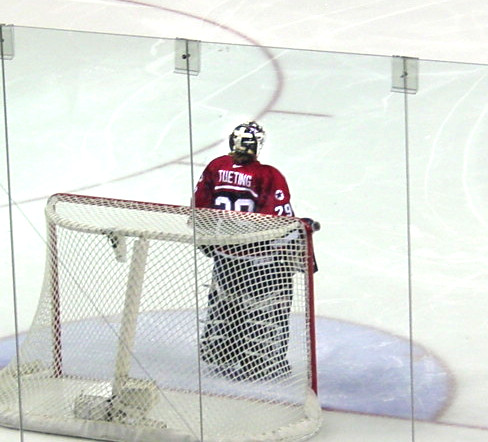 United States national women's ice hockey goaltender Sarah Tueting, during a game against Sweden on February 19, 2002.